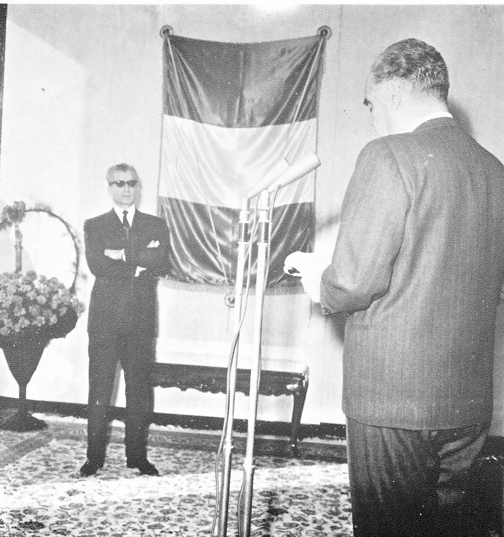 Shahanshah Aryamehr after hearing the report read by Dr Eghbal unveils the memorial plate for the central building of NIOC